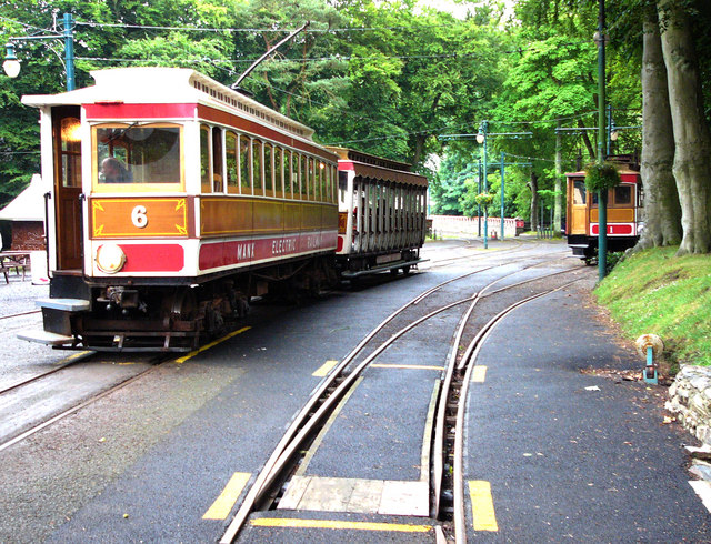 Laxey station, Manx Electric Railway